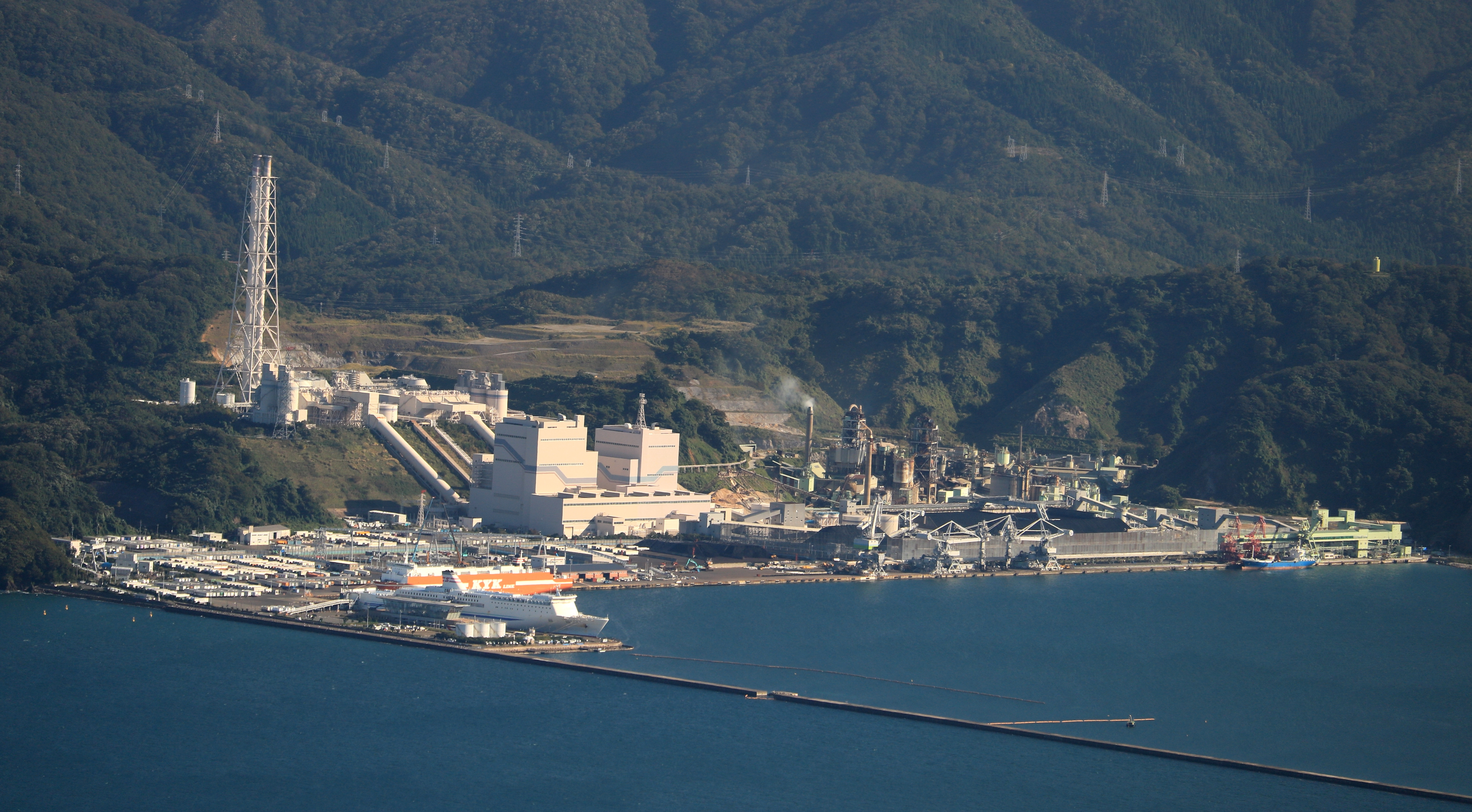 Tsuruga Thermal Power Plant seen from Mount Sazae in Tsuruga, Fukui prefecture, Japan.